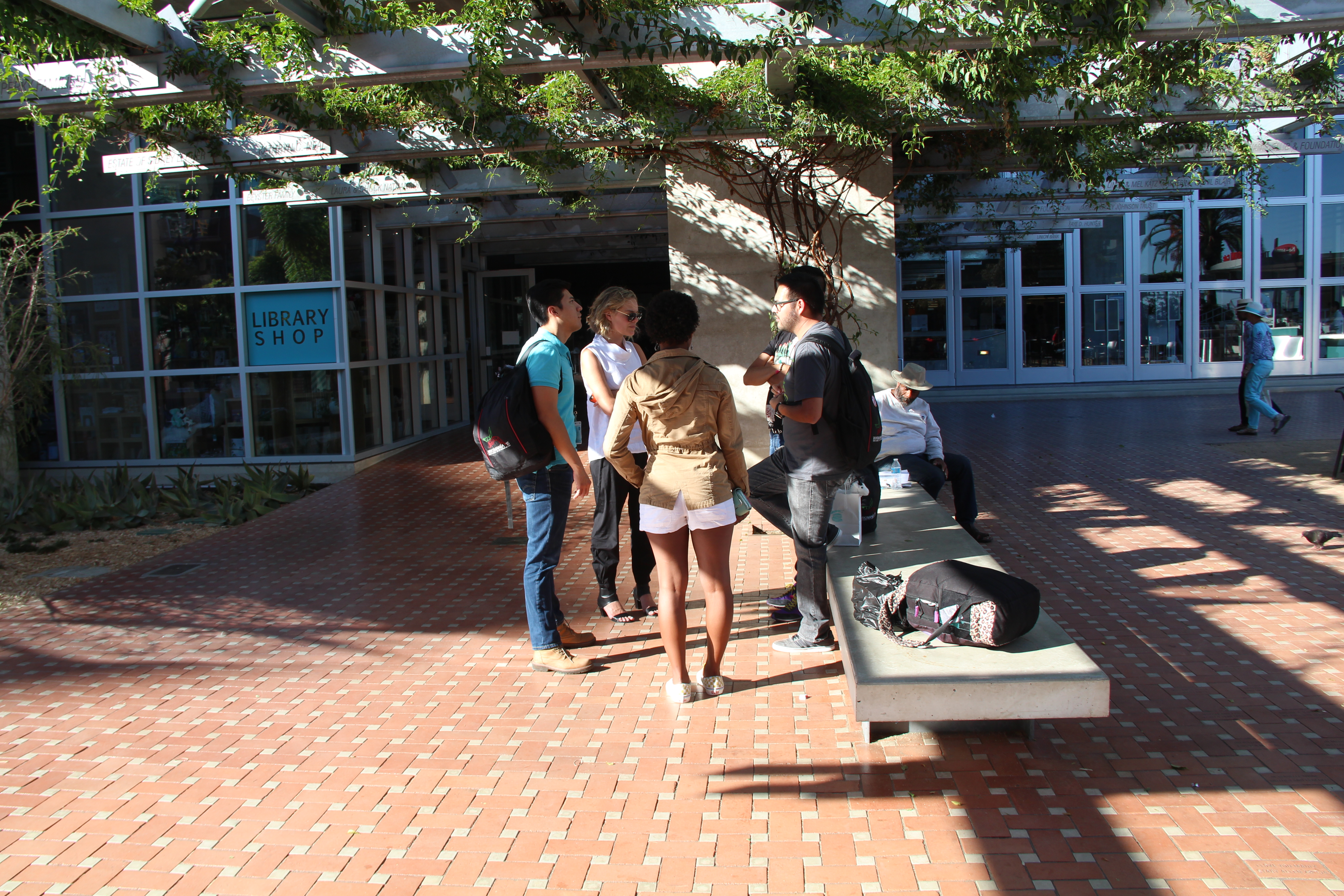 WikiConference North America 2016 Outside courtyard at San Diego Public Library